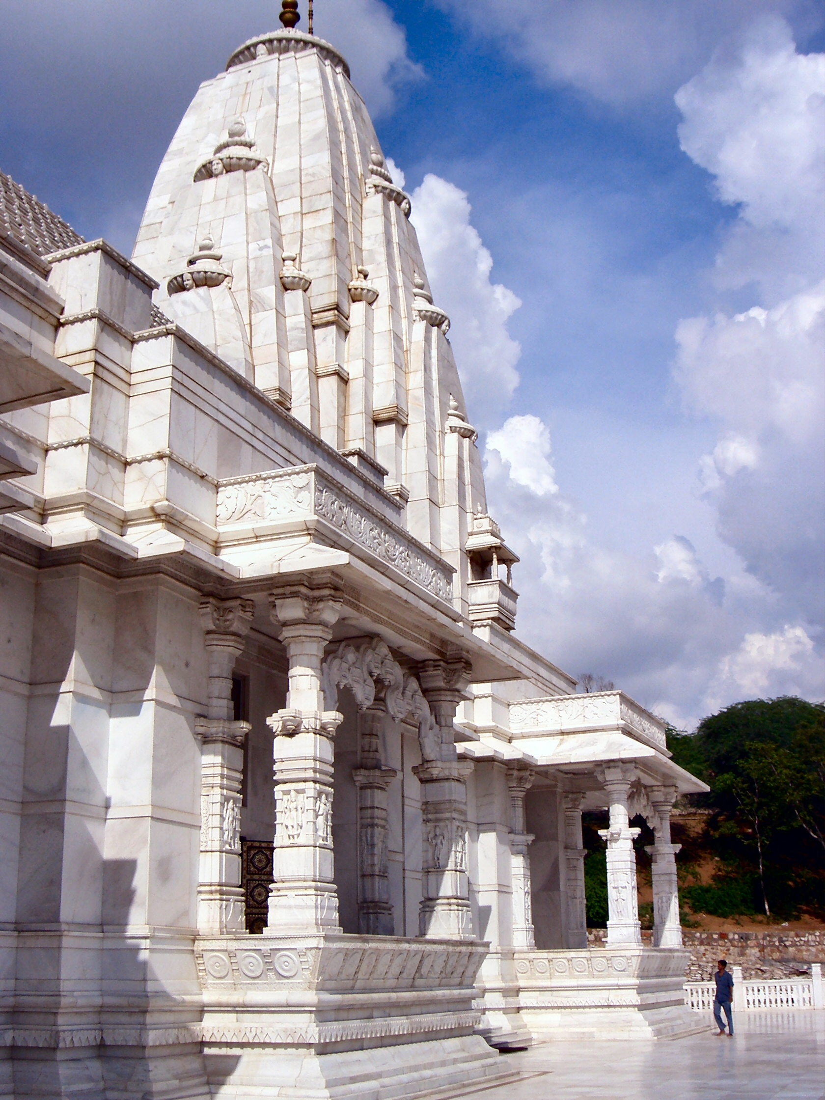 The marble floor is so cool on the feet - it was a tremendous sensation compared to the heat of the air.